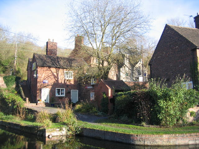 Tar Tunnel The two storey building conceals the entrance to the Tar Tunnel adjacent to the foot of the Hay Inclined Plane. This tunnel into the hillside taps into natural sources of bitumen.